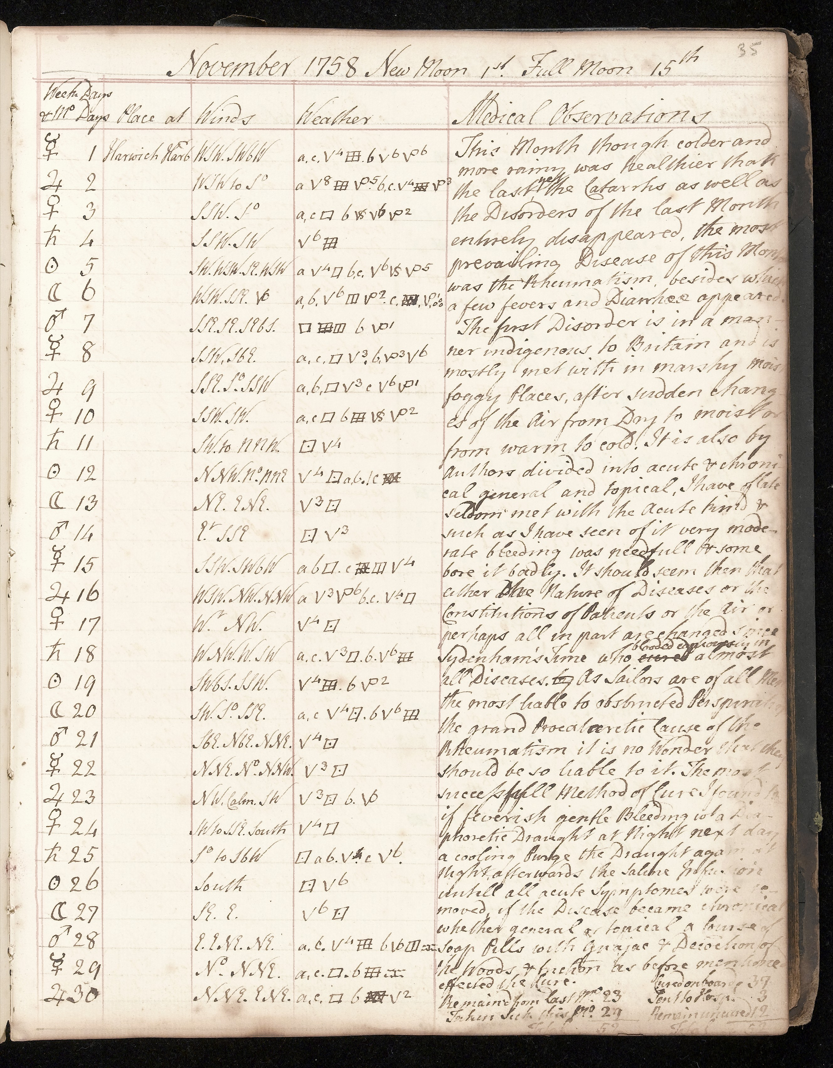 Page from the journal of John Murray [ships surgeon on H.M.S. Conqueror], dated November 1758, containing daily meteorological and monthly medical observations to chart the relationship between weather conditions and different diseases Wellcome Images Keywords: John Murray